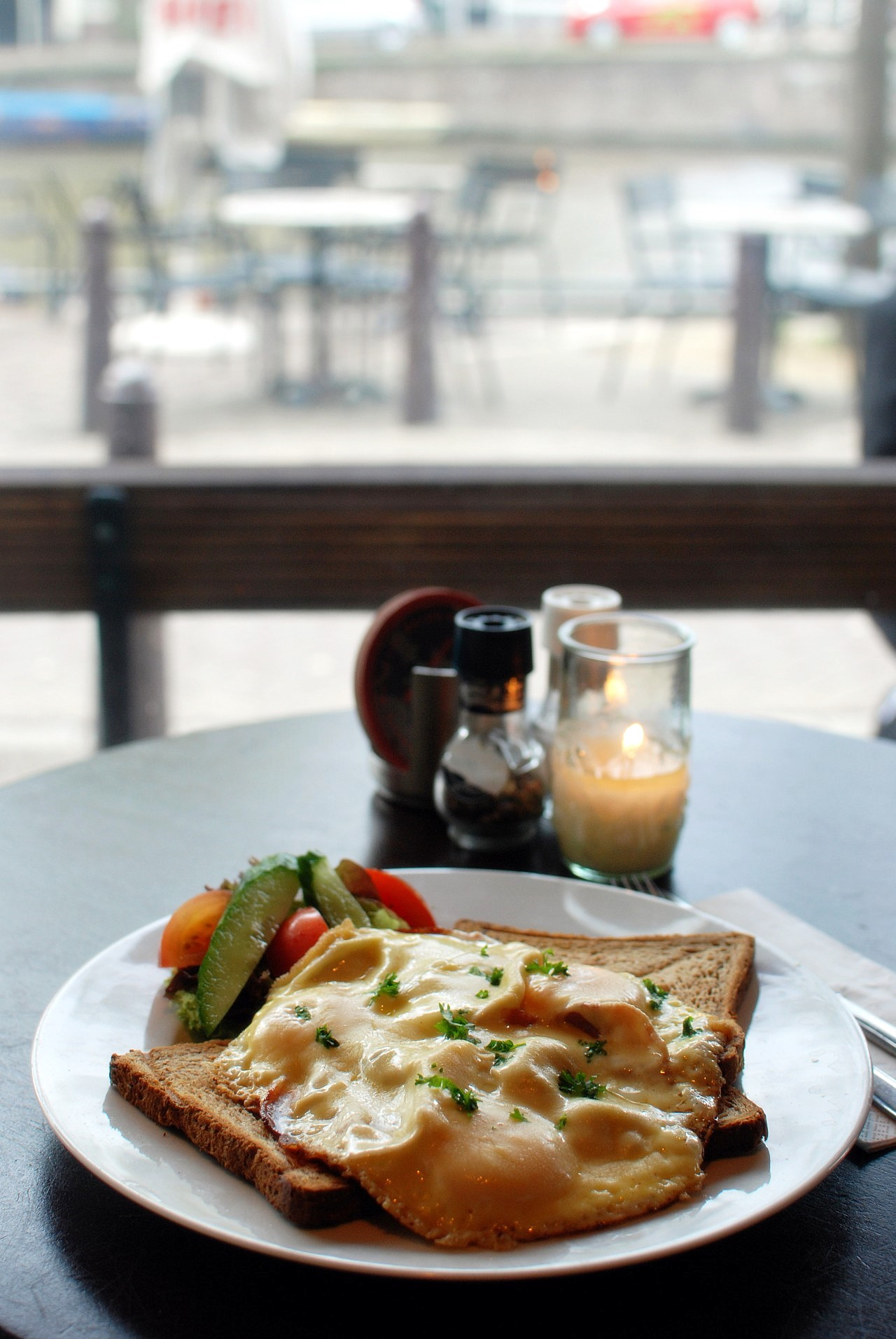 A 'uitsmijter spek en kaas': Dutch for a couple of fried eggs (in this case 3) with bacon and cheese. The bacon is first put in to the pan with some butter, then the eggs (sunny side up) fried over them and all this is topped with young Gouda cheese and fried until the cheese has molten. Served with sliced brown (whole wheat) bread, it's a very filling lunch on a cold autumn day. It is a kind of fast food served in many Dutch lunch rooms, cafés and canteens.